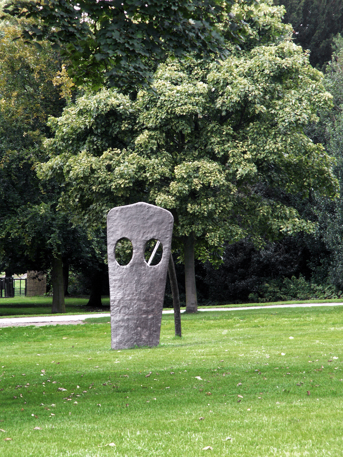 Yorkshire-Sculpture-Park, William Turnbull, Large Horse, 1990